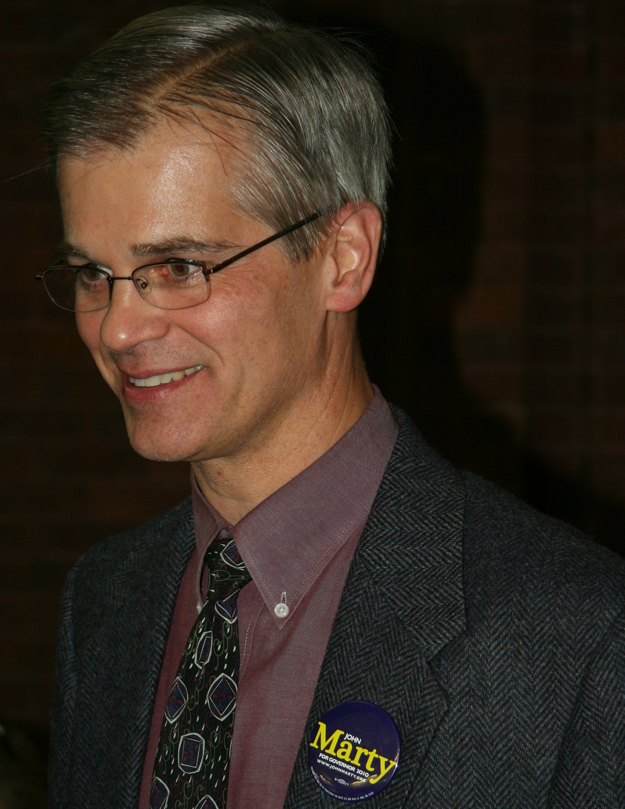 John Marty at a forum for candidates for governor of Minnesota in Rochester, Minnesota.